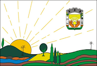 Flags of the city of Centenário, Rio Grande do Sul, Brazil.